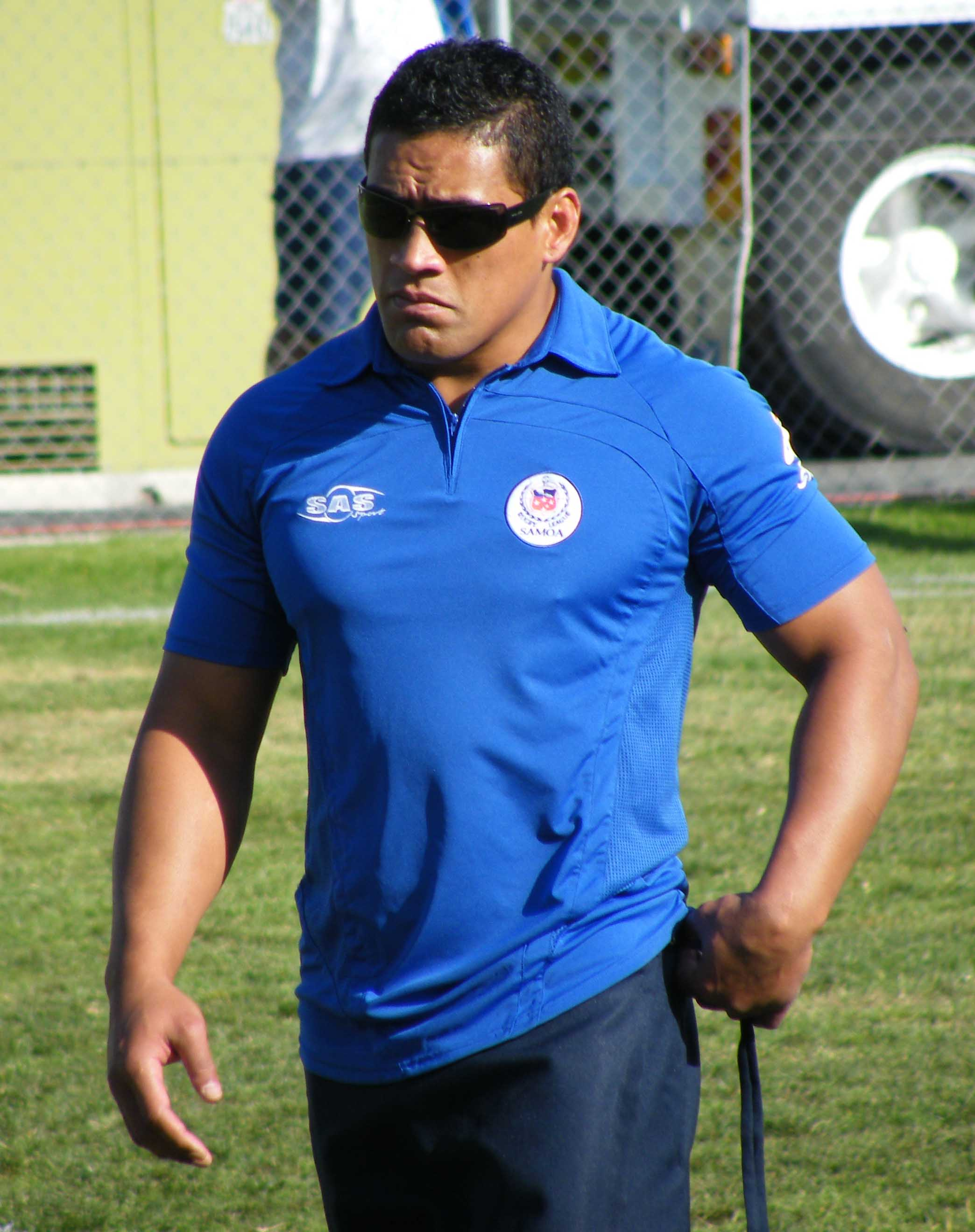 RLWC 2008 - Samoa v France at Penrith. Samoan centre Willie Talau.